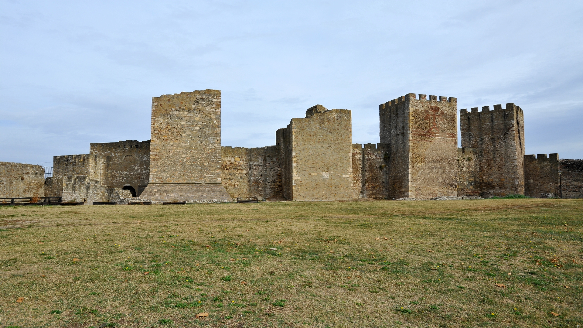 Smederevo fortress, general look